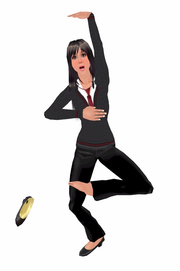 Syee (Japanese comical gesture expressing surprise)